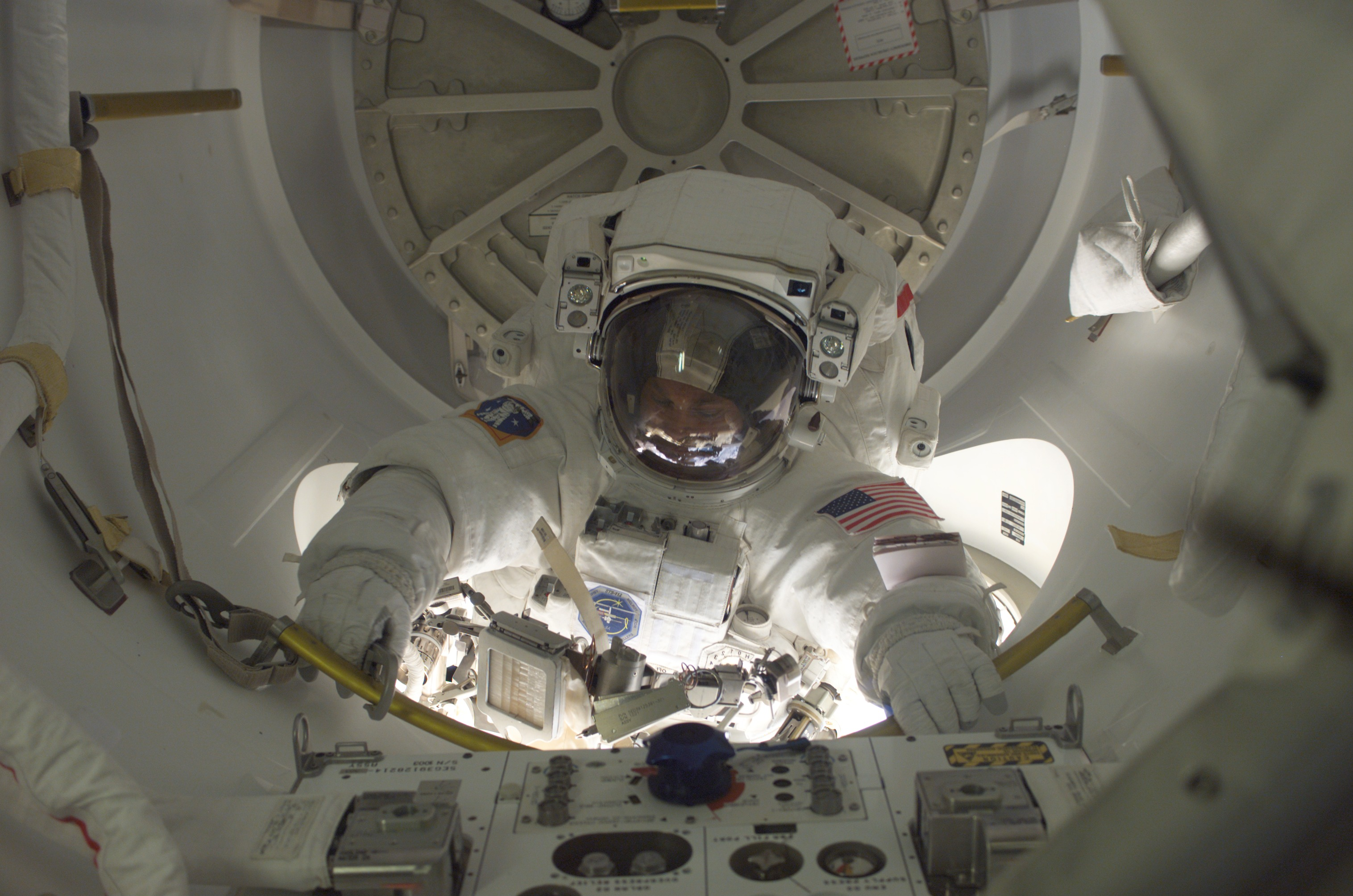 Astronaut David A. Wolf, STS-112 mission specialist, exits the Quest Airlock on the International Space Station (ISS) to begin the third and final scheduled session of extravehicular activity (EVA) for the STS-112 mission. Astronaut Piers J. Sellers (out of frame), mission specialist, joined Wolf on the spacewalk.